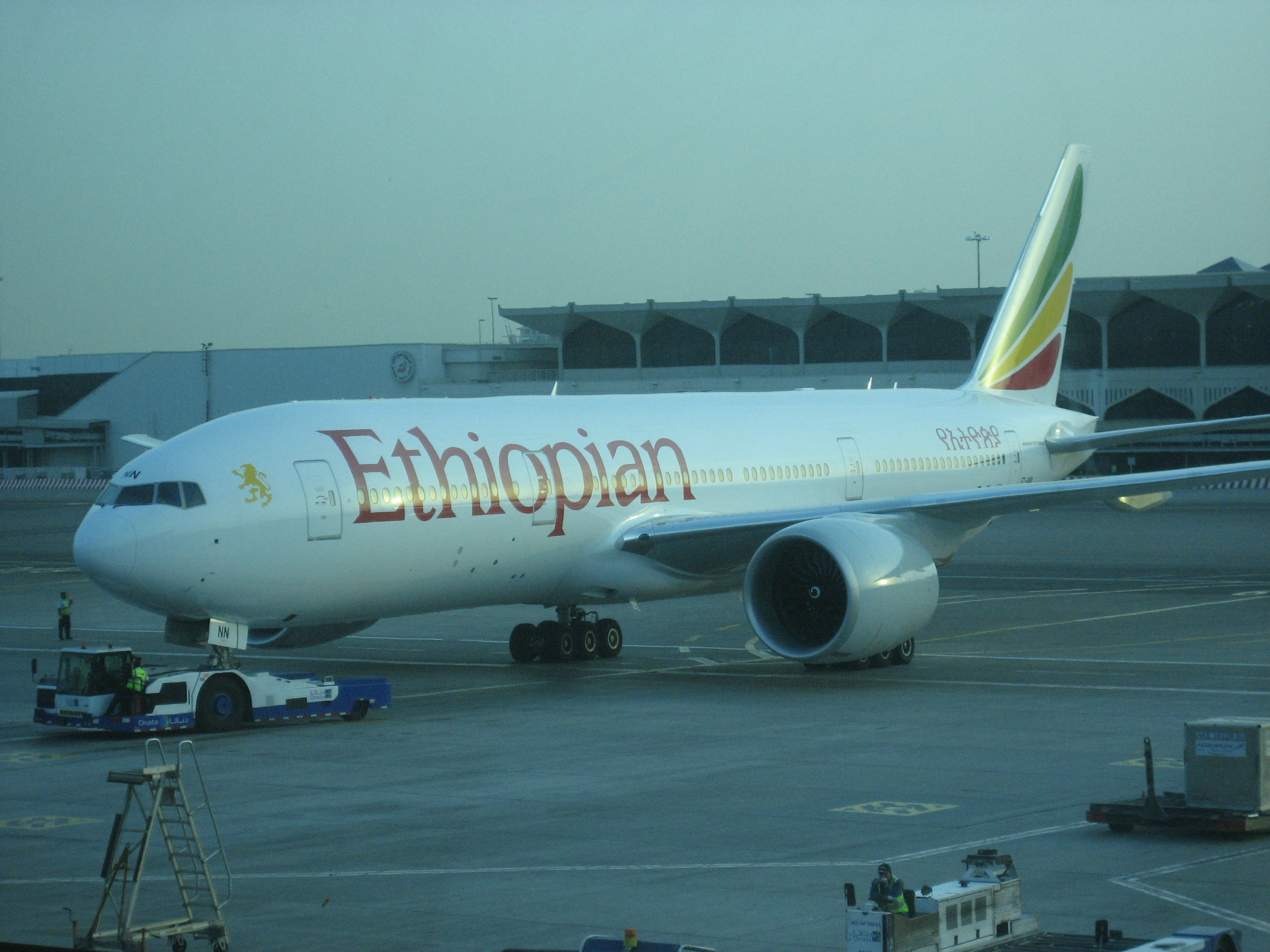 Ethiopian Boeing 777-200LR in Dubai.